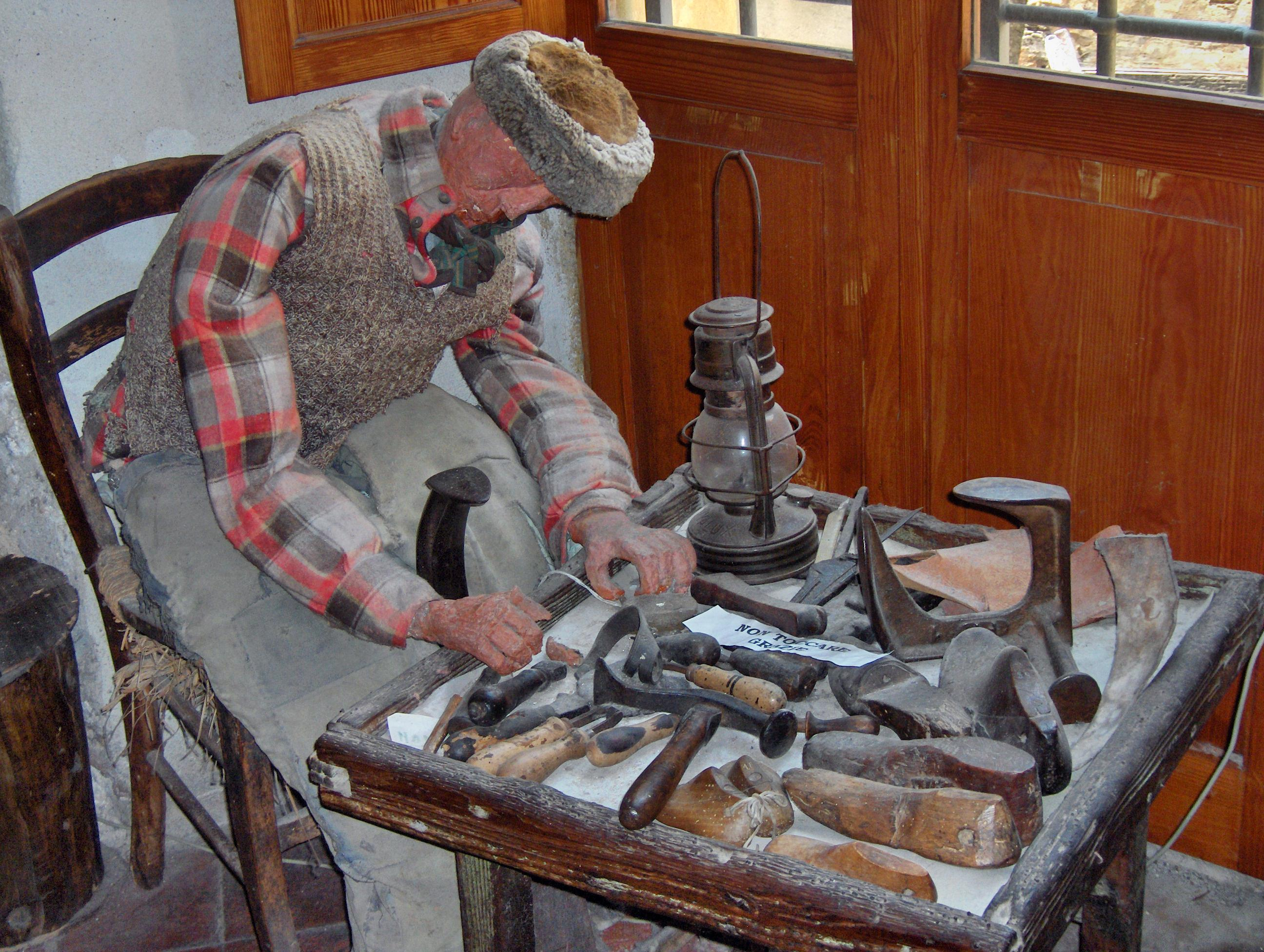 Cobbler; Ethnographic Museum of Western Liguria; Cervo, Flower Riviera, Italy